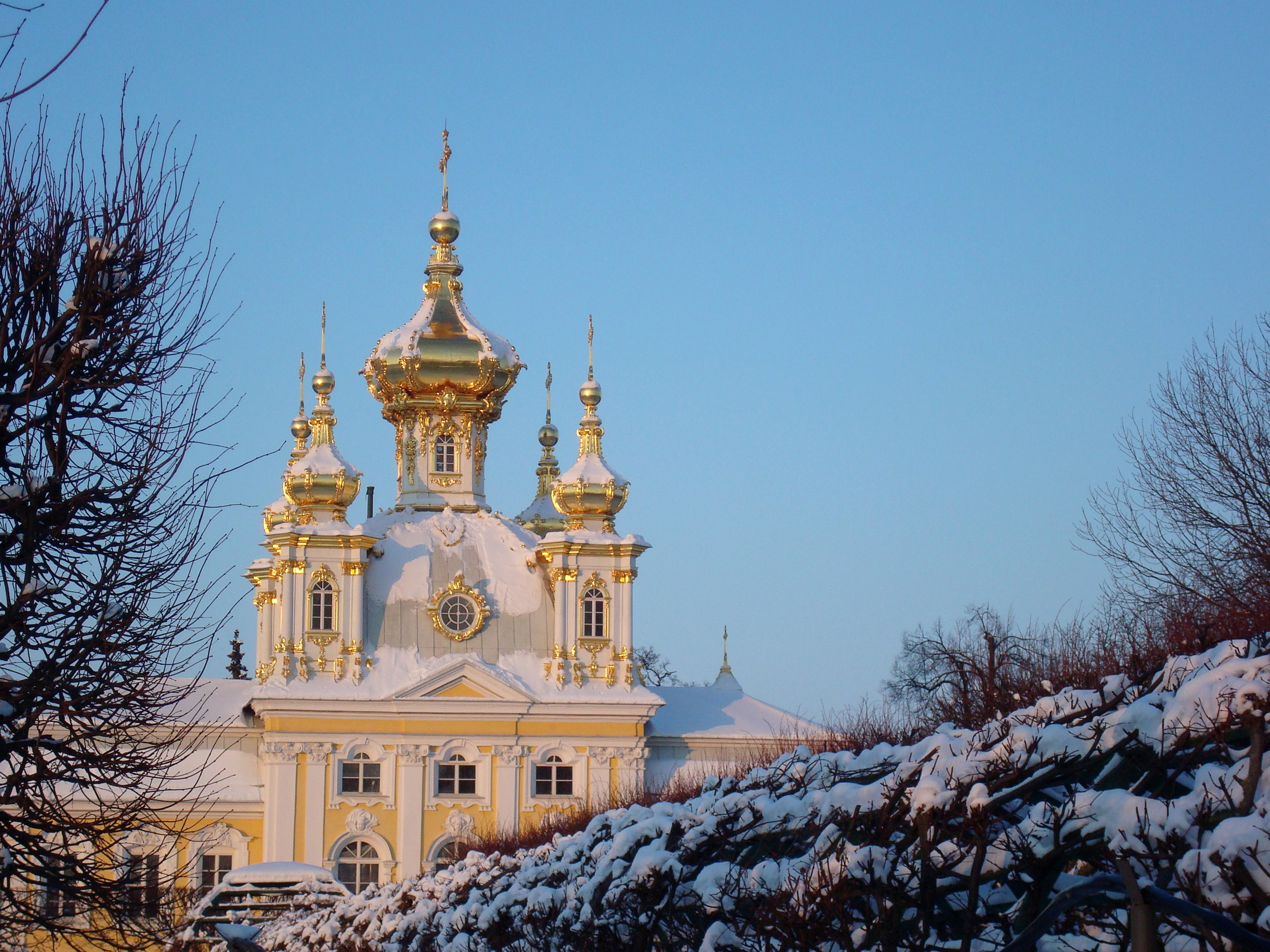 The Church of the Peterhof Grand Palace, Russia